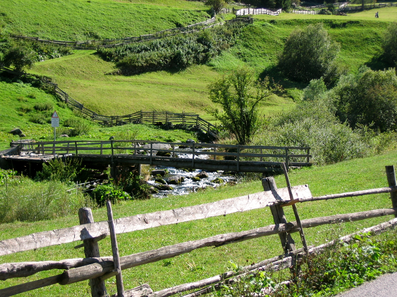 River Falschauer in the Ulten Valley